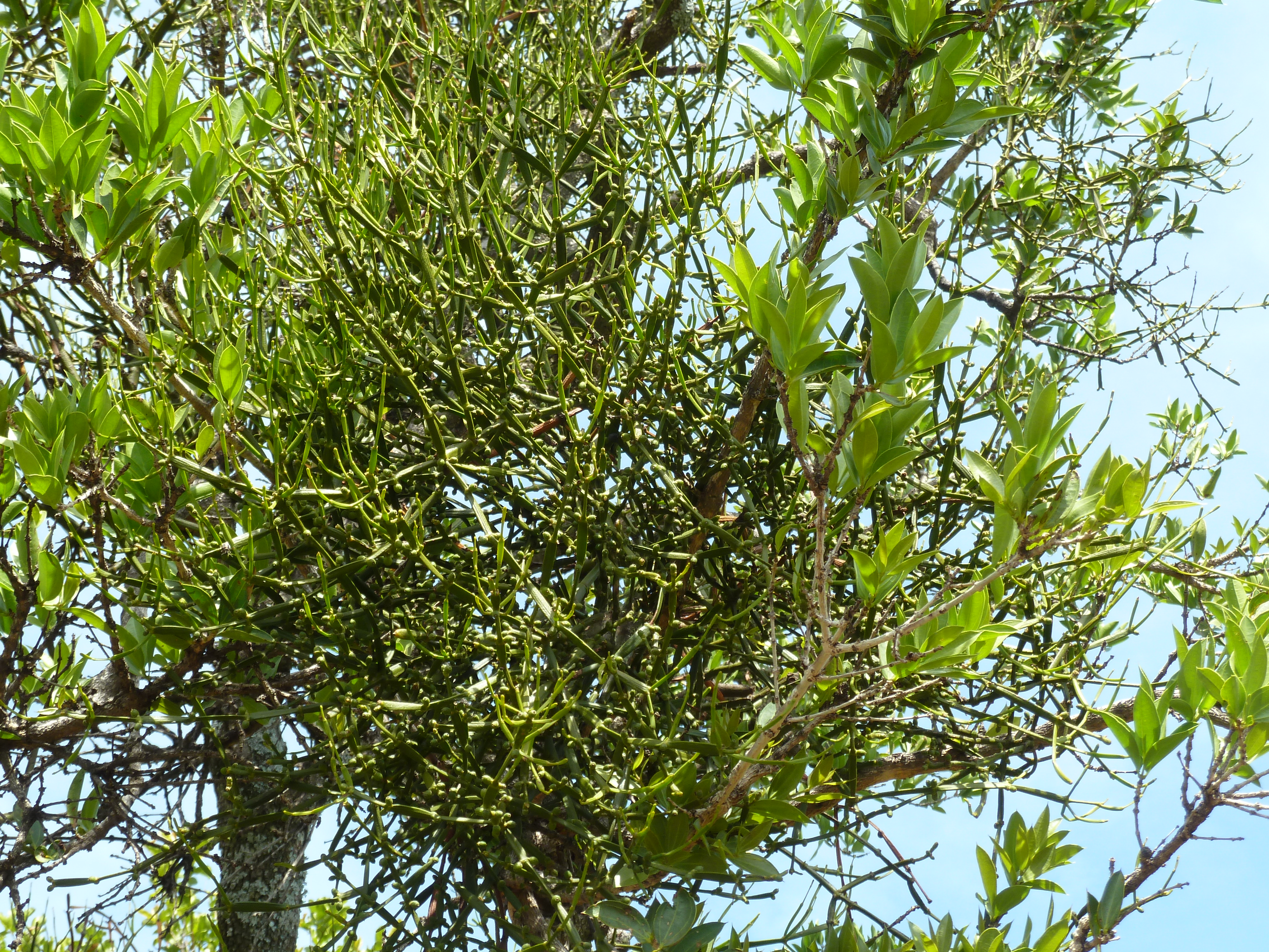 Combretum mistletoe growing on Spine-leaved monkey-orange (Strychnos pungens) on a rocky ridge at Seringveld near Pretoria